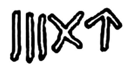 Inscription on a stone sarcophagus from Tuscania: 𐌣XIII = 63